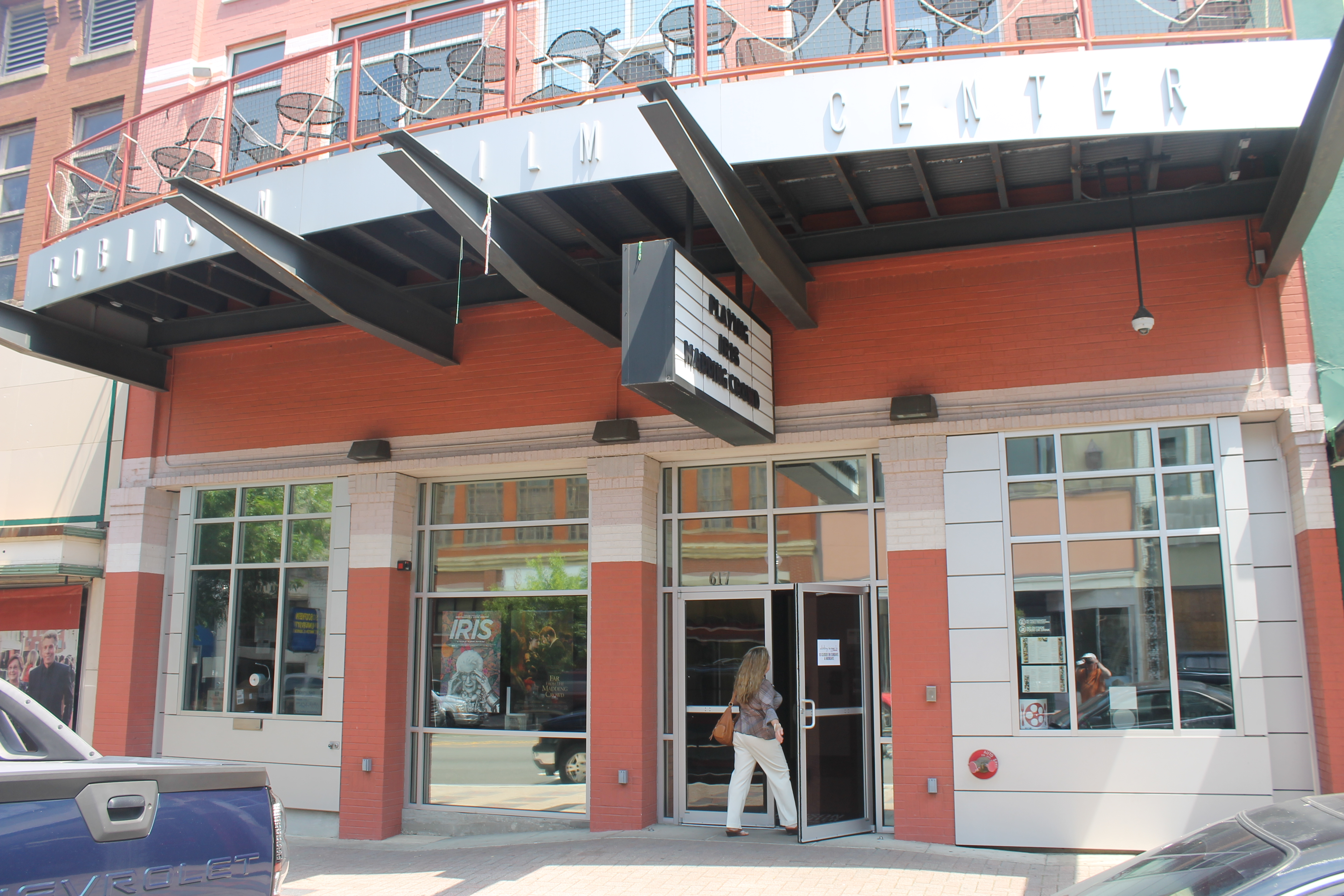 Robinson Film Center in downtown Shreveport on Texas Avenue